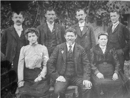 Hammesfahr Family Photo